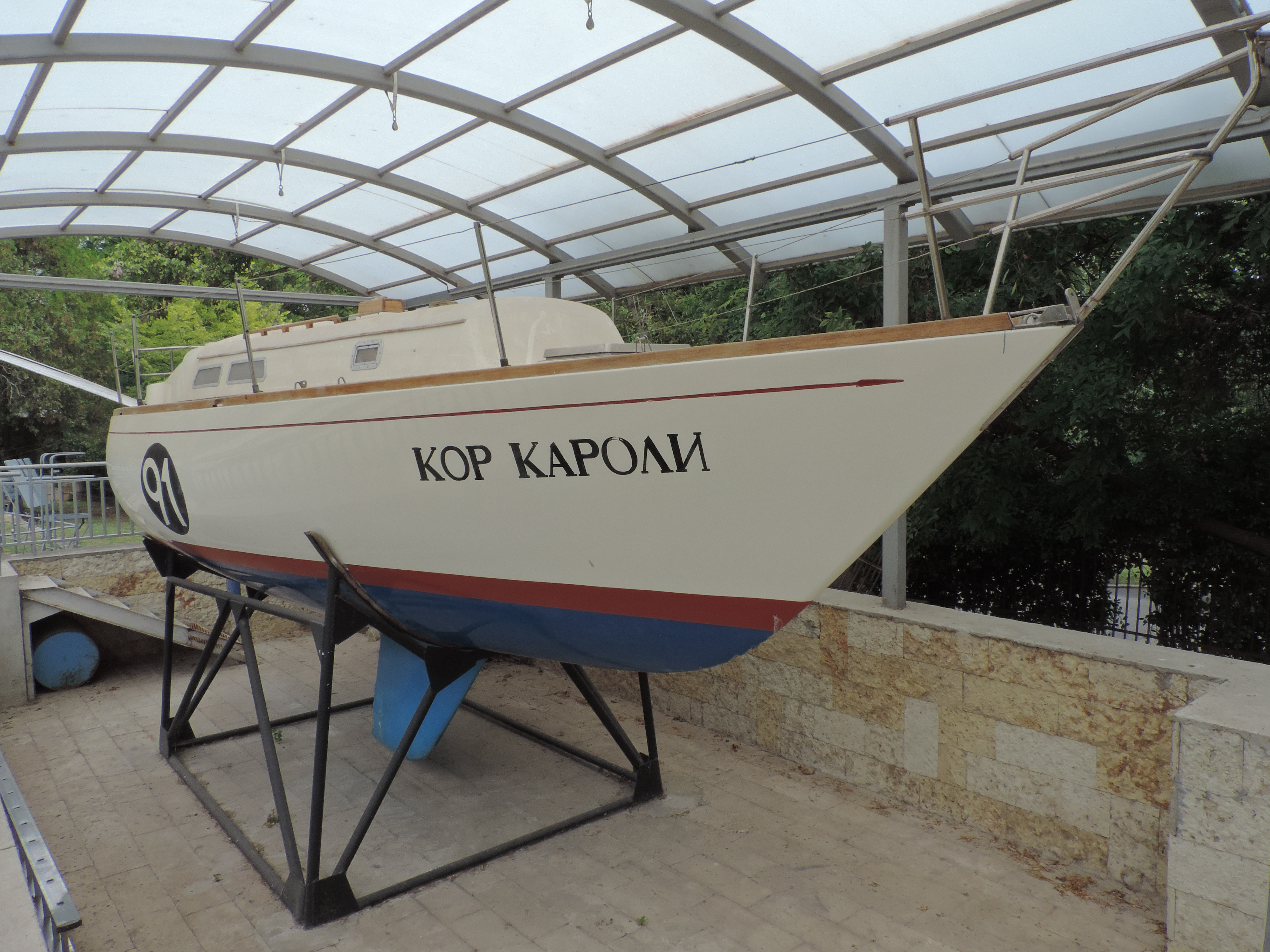 Cor Caroli yacht, The National Naval Museum in Varna, Bulgaria.